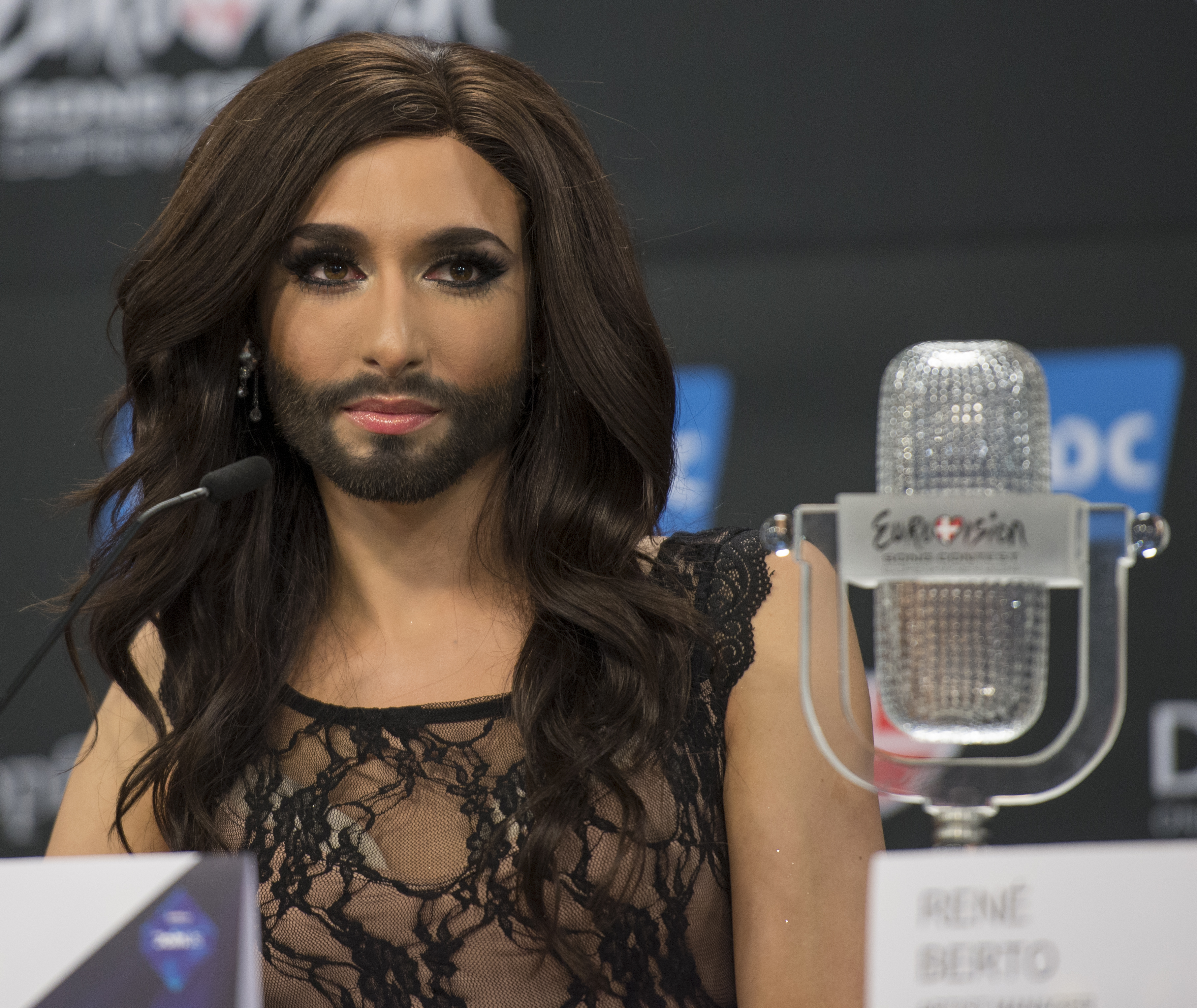 Conchita Wurst at the winners press conference, right after winning the Eurovision Song Contest 2014 Copenhagen. (Help translate this text)